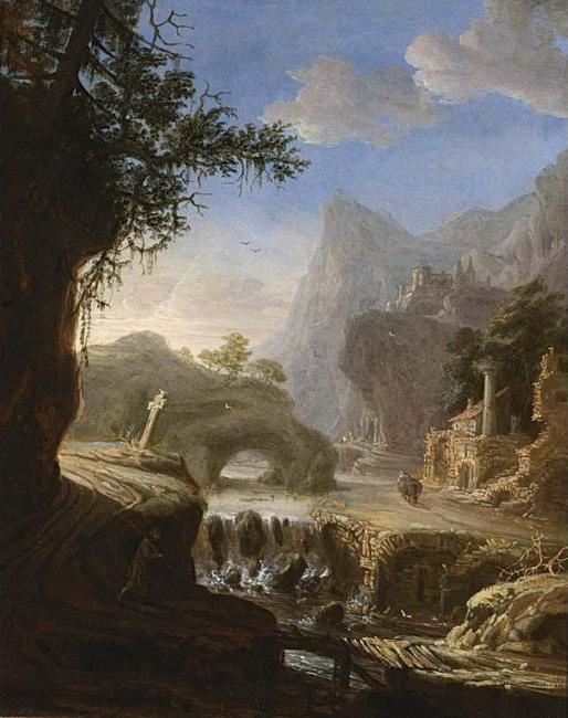 Italianate landscape with figures